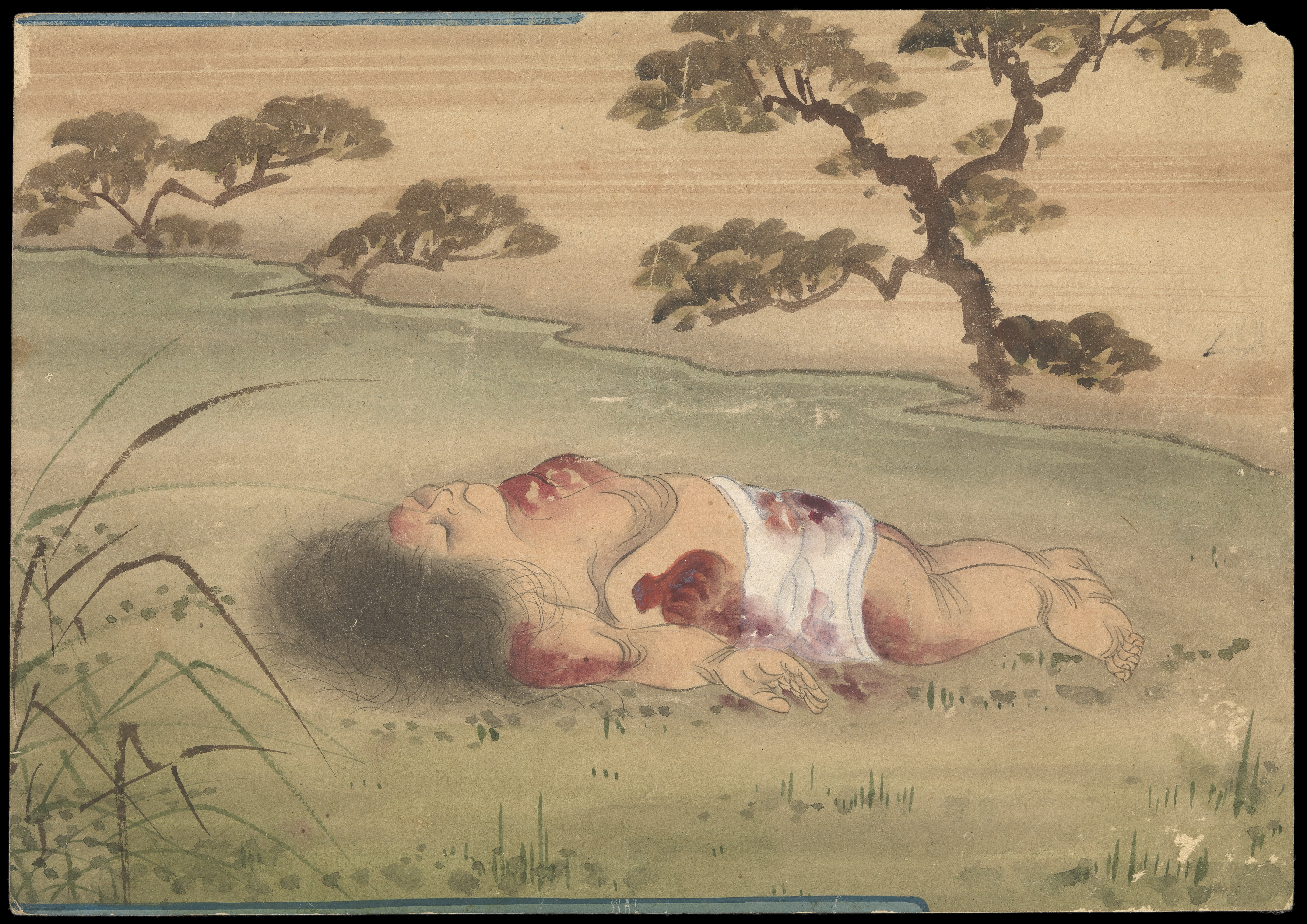 Kusozu: the death of a noble lady and the decay of her body. Fourth in a series of 9 watercolour paintings. Here, putrefaction has set in, her lower body is covered with a loincloth. Iconographic Collections